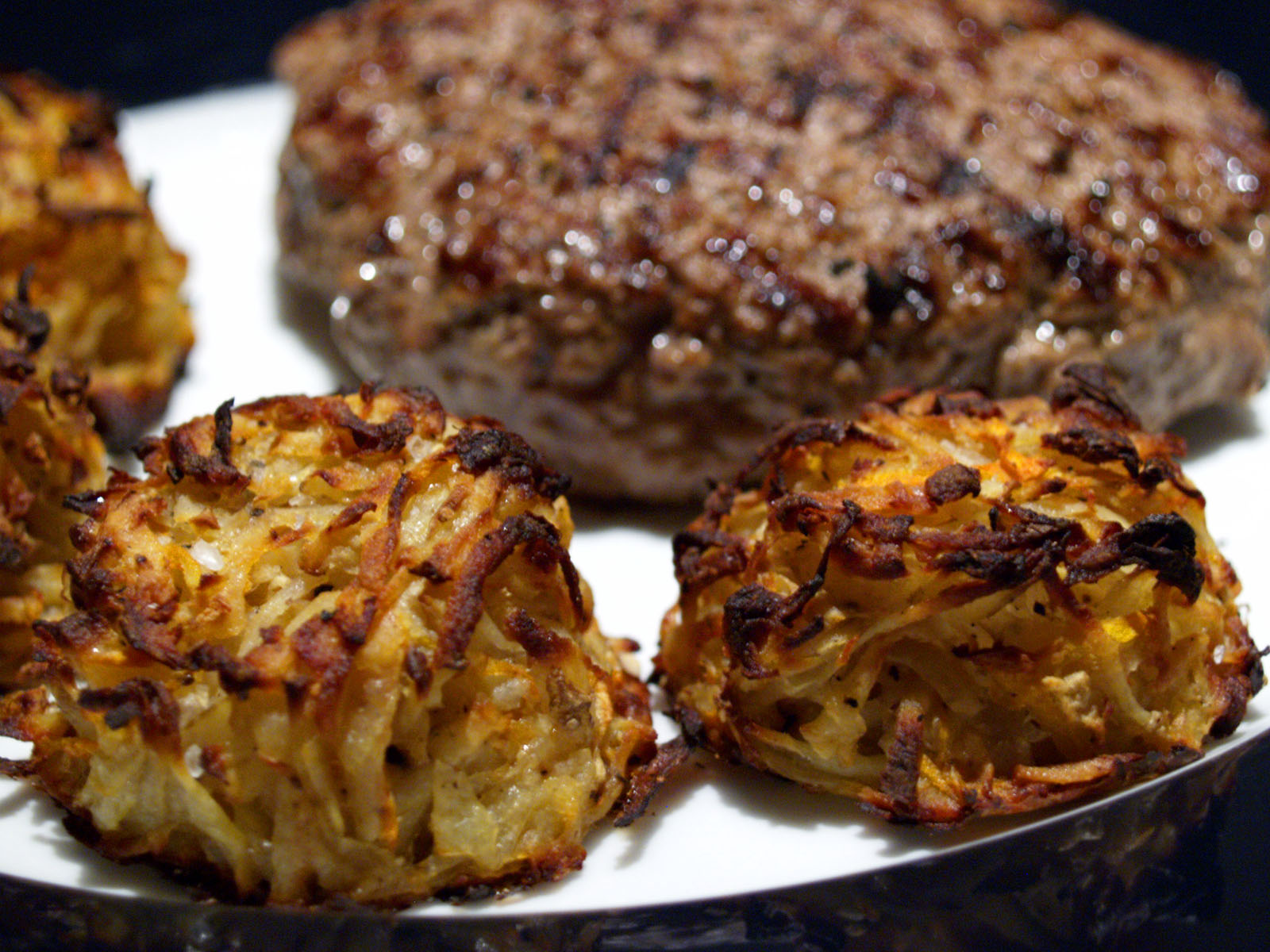 Minced meat patties and rösti